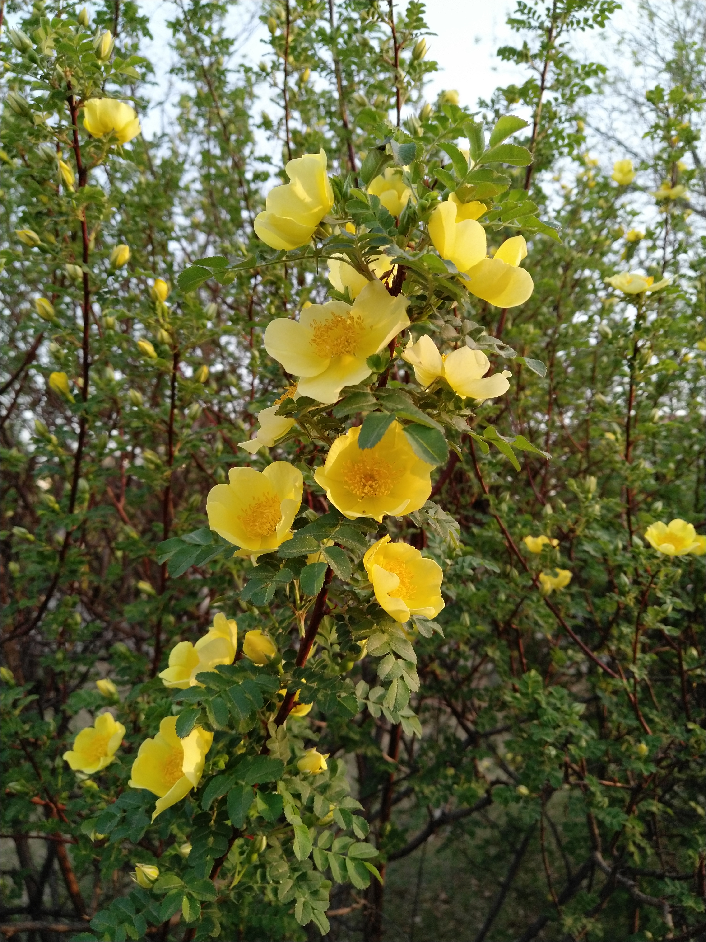 Rosa xanthina Lindl. form. normalis Rehder & E. H. Wilson, taken in Huludao, China